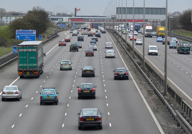 The busy M1 motorway. In the distance is Leicester Forest East Services.